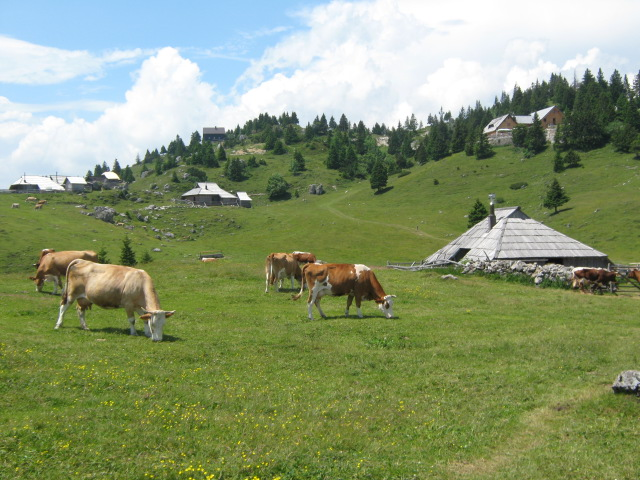 Cattle grazing at the high-mountain pasture of Velika Planina, Slovenia